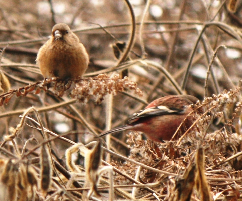 Uragus sibiricus (female and male) and Solidago canadensis var. scabra in Japan